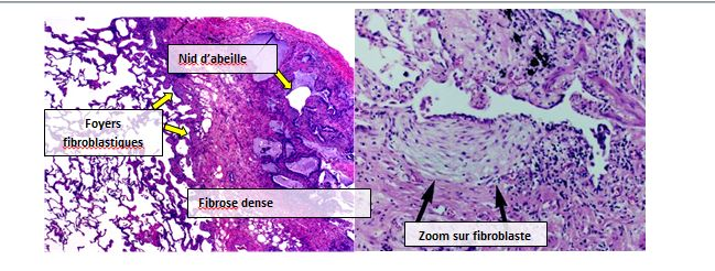 Photomicrograph of the histopathological appearances of usual interstitial pneumonia in IPF.